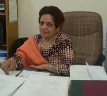 At office